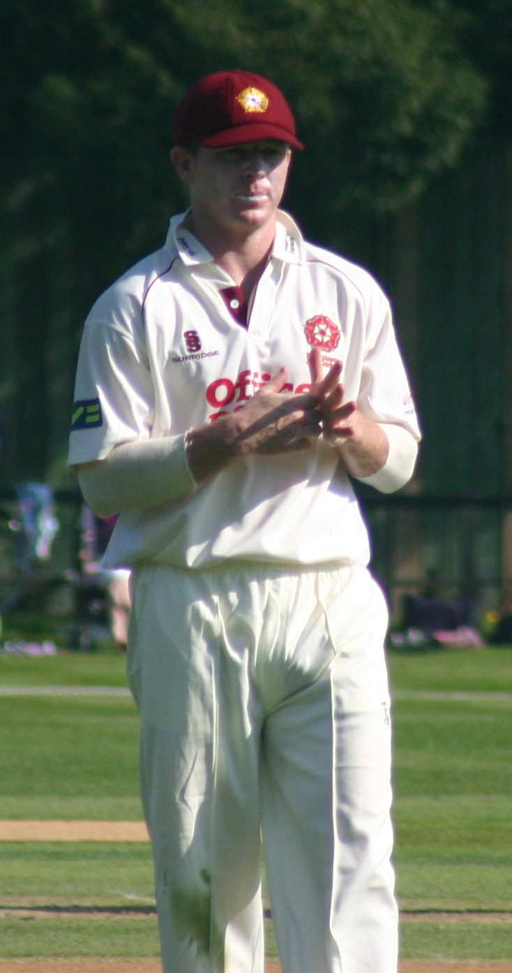 Chris Rogers playing for Northamptonshire against Cambridge UCCE at Fenner's.